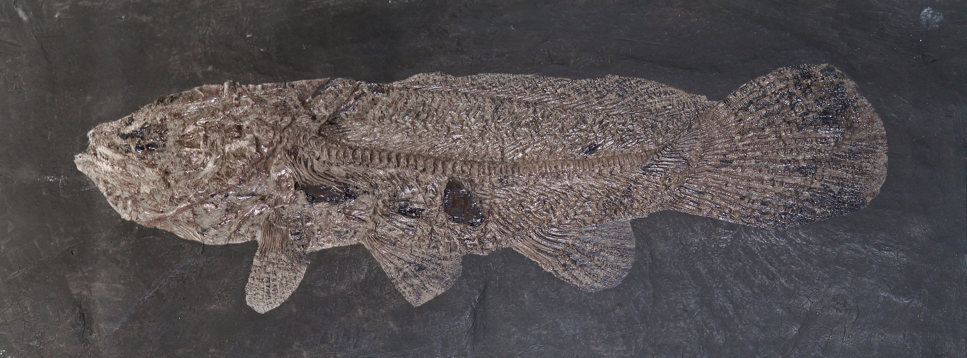 Cyclurus kehreri, Amiidae; Eocene, Messel, Germany; Staatliches Museum für Naturkunde Karlsruhe, Germany.